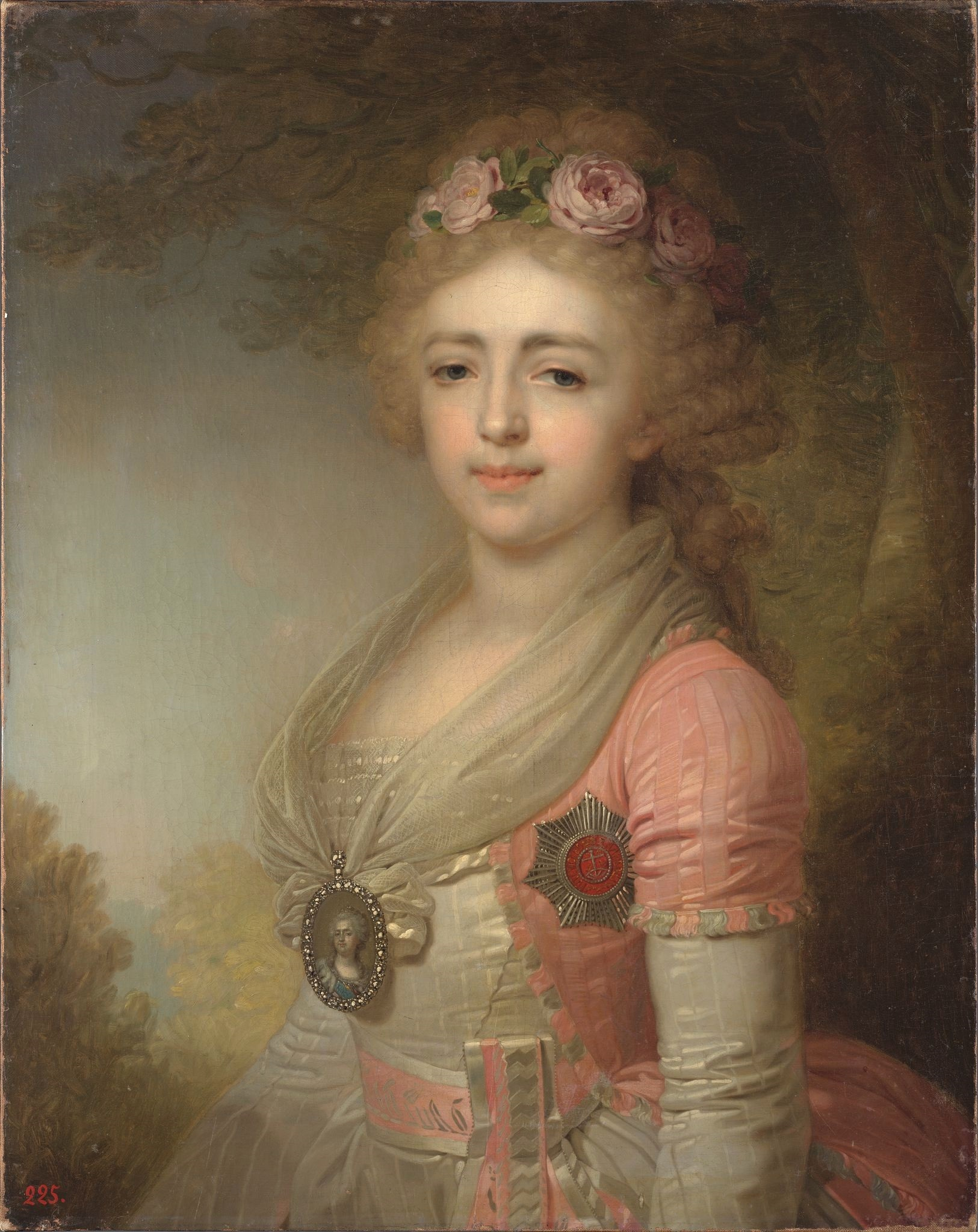 Grand Duchess Alexandra Pavlovna of Russia (1783-1801), Palatina of Hungary, daughter of tsar Paul I of Russia, wife of Archduke Joseph Anton Johann of Austria, Palatin of Hungary